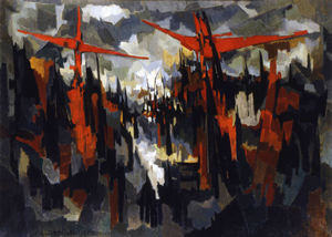 Pierre Dmitrienko, 1954, "Golgotha", oil on canvas, 97x130cm